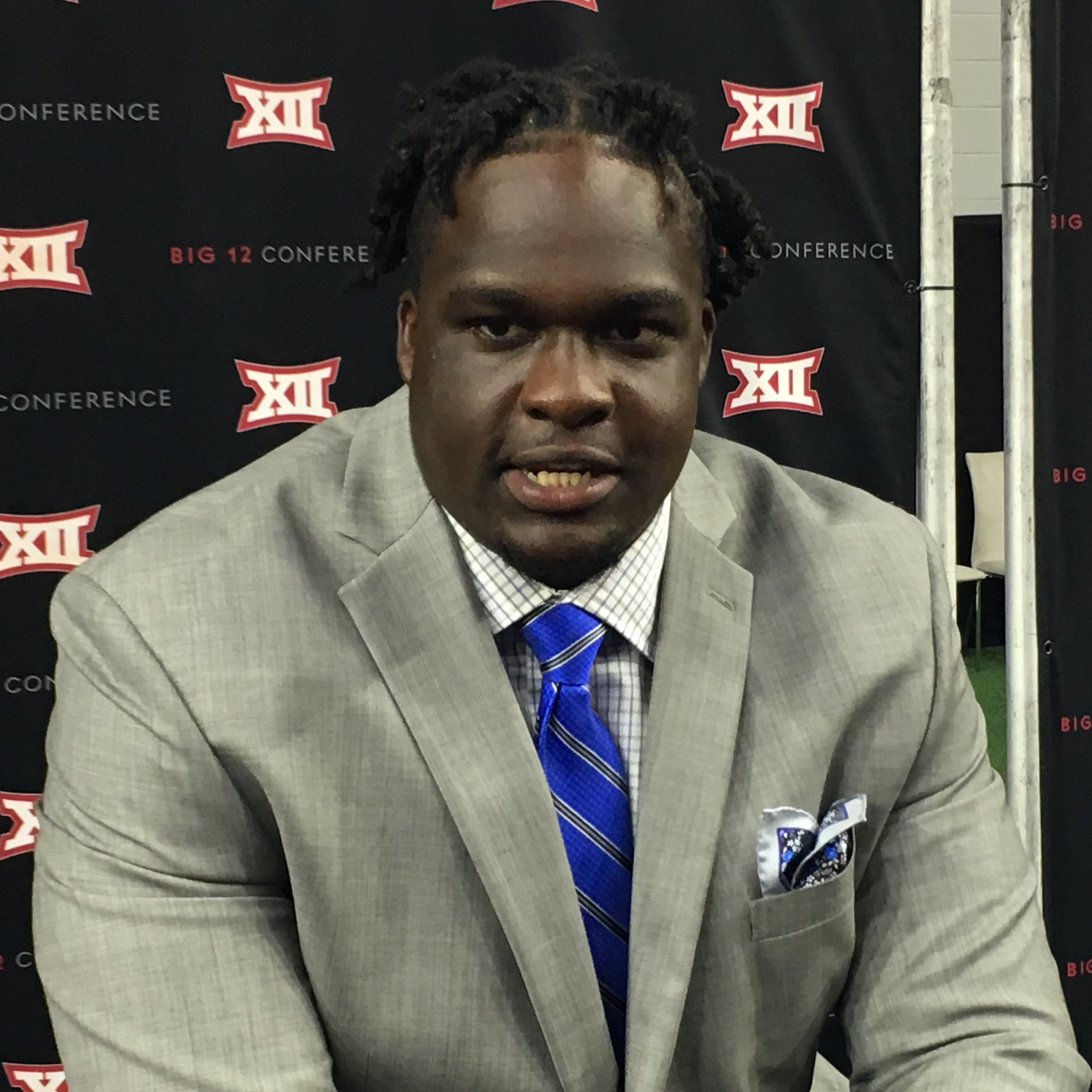 Yodny Cajuste, offensive lineman for the West Virginia Mountaineers football team, at the 2018 Big 12 Conference Media Days in Frisco, Texas.